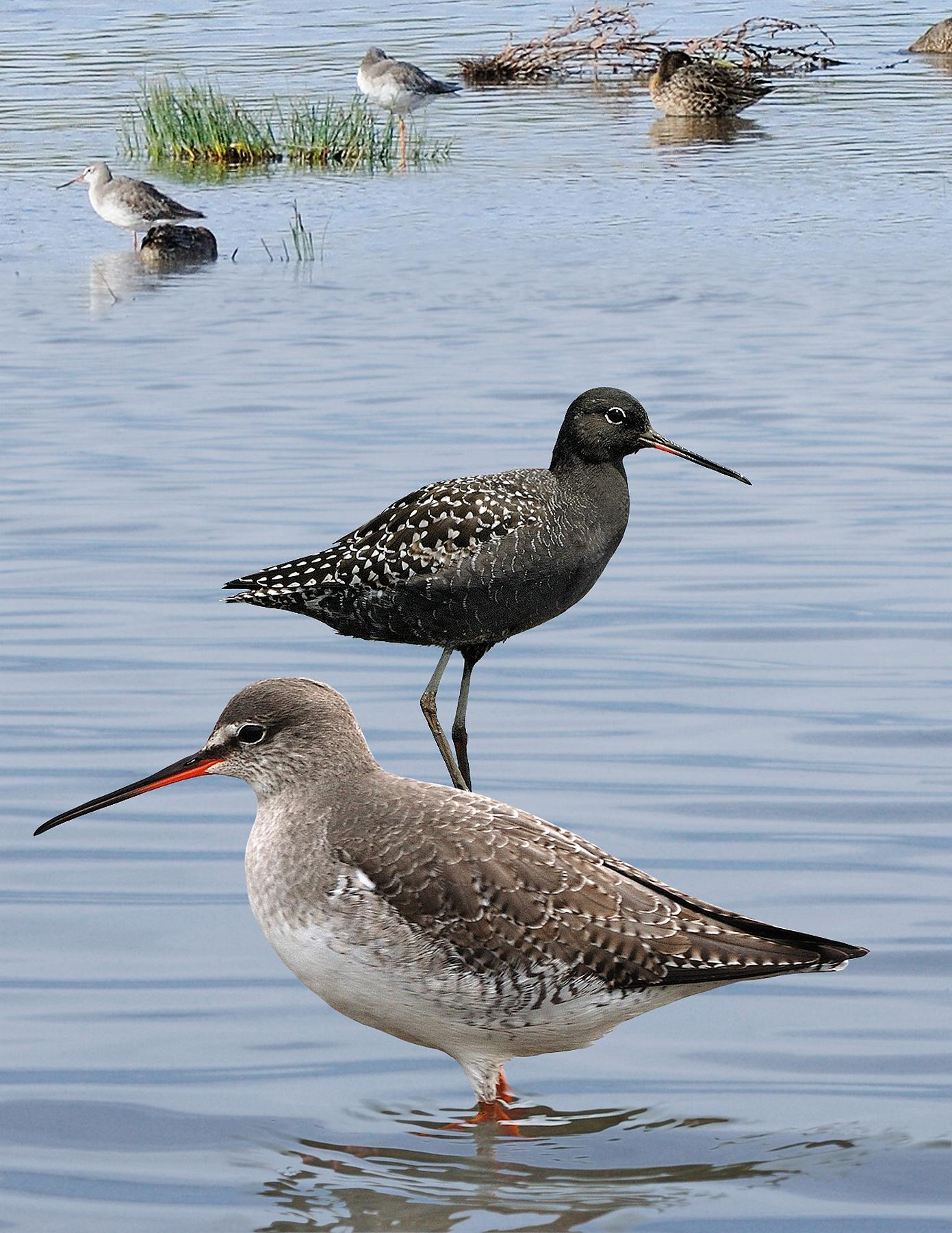 Spotted Redshank From The Crossley ID Guide Eastern Birds